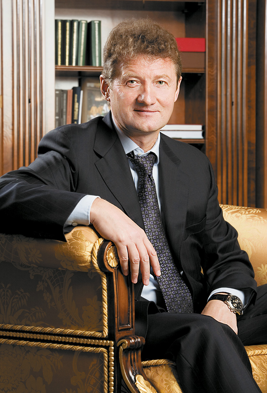 Andrey Anatolievich Kozicyn, general direсtor of UMMC